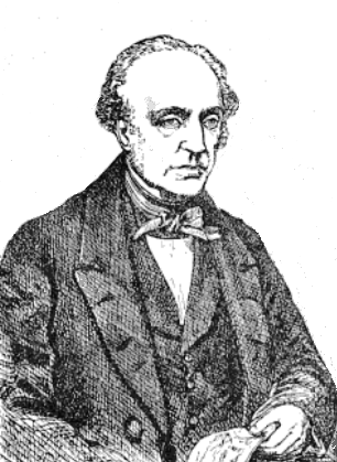 William Lewis (1787-1870), English chess player and author